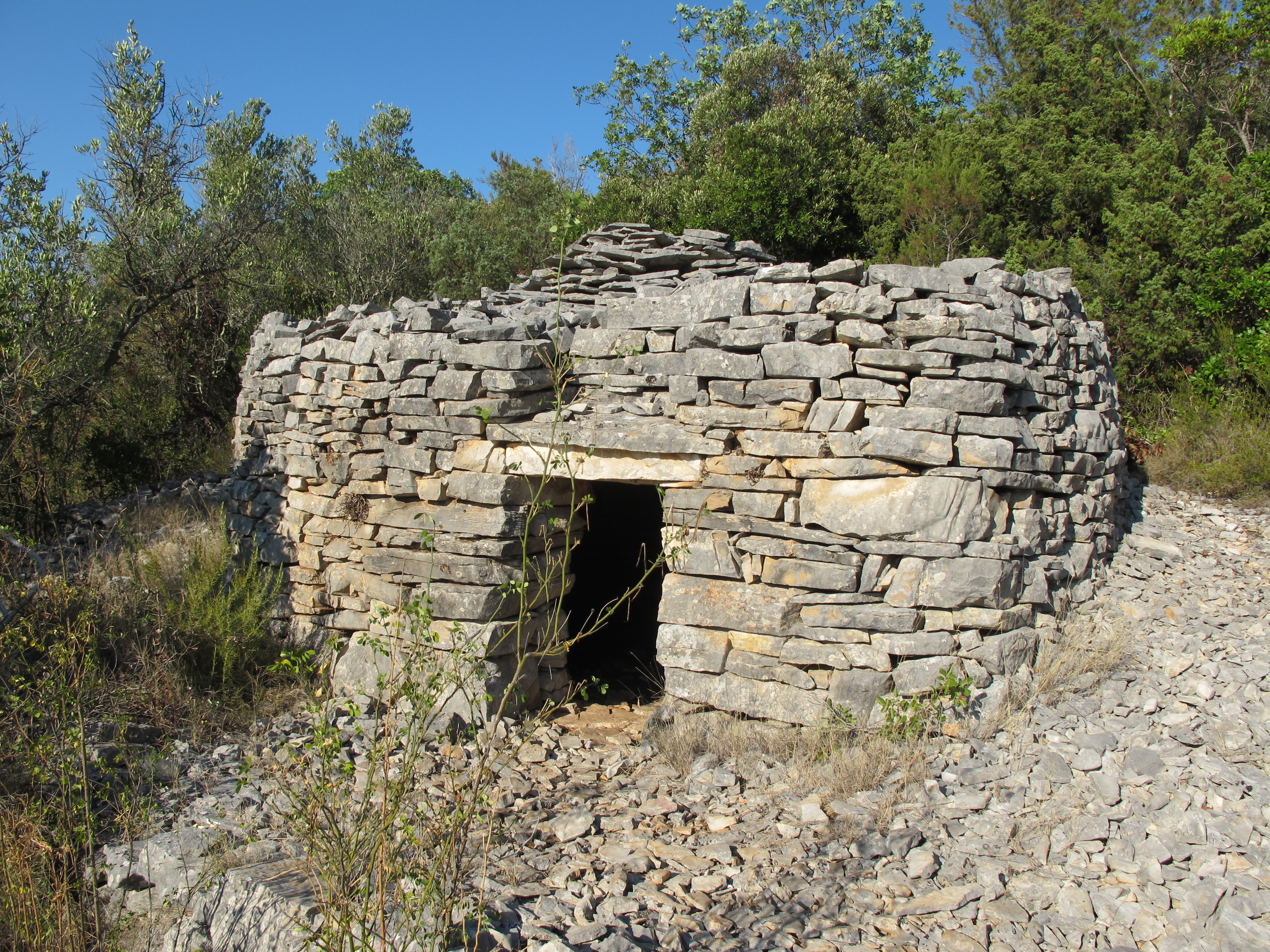 Bunja in U Maslinica part of the bay of Nečujam Šolta / Croatia / Adriatic Sea. Bunjas are single-room, without windows, without wood built round stone cottage with a round roof of limestone piled up. The design has Neolithic origin and was used until the modern era as a tool and storage shed. Bunjas were built of limestone.